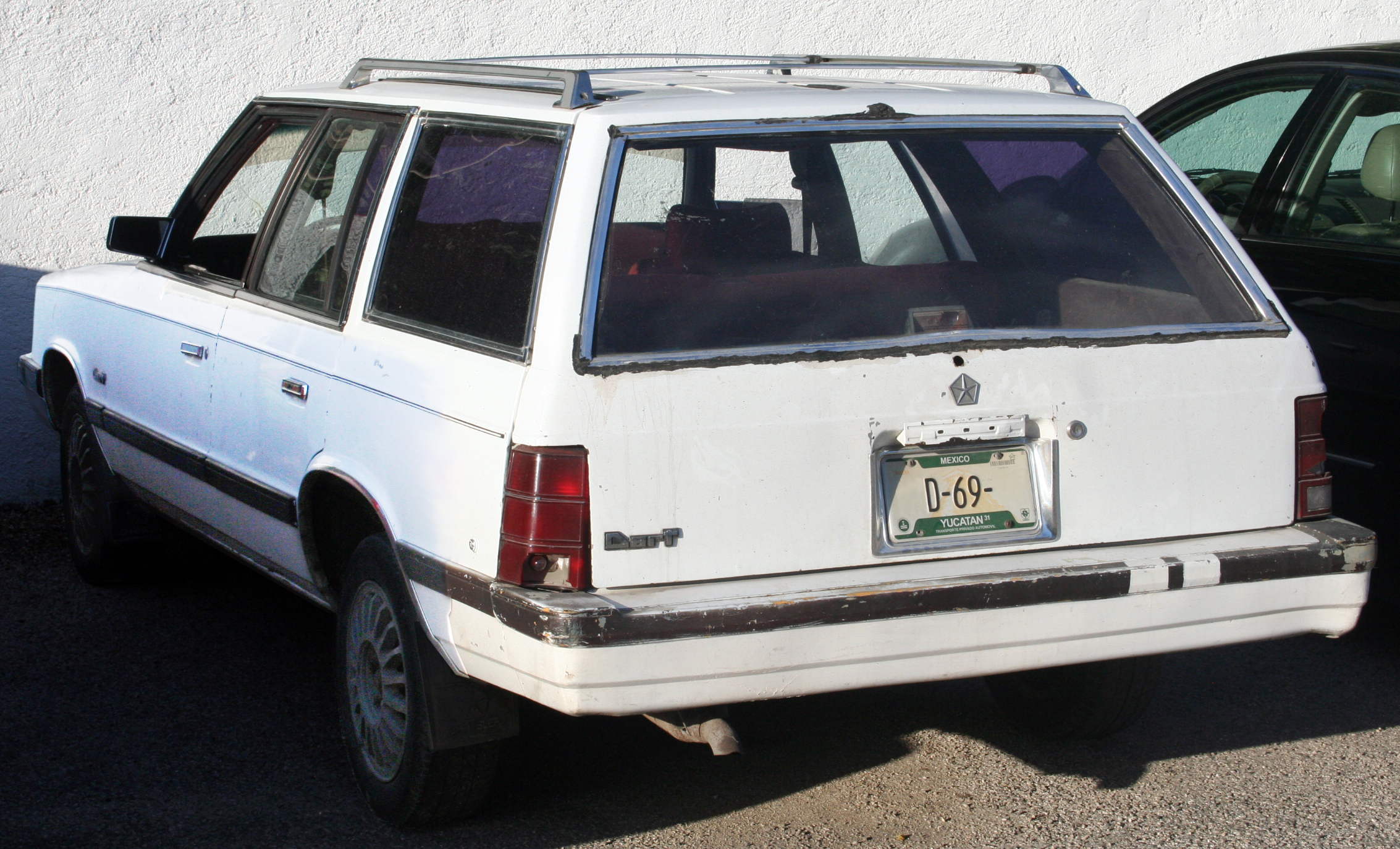 Mexican market Dodge Dart wagon in Valladolid, Mexico.